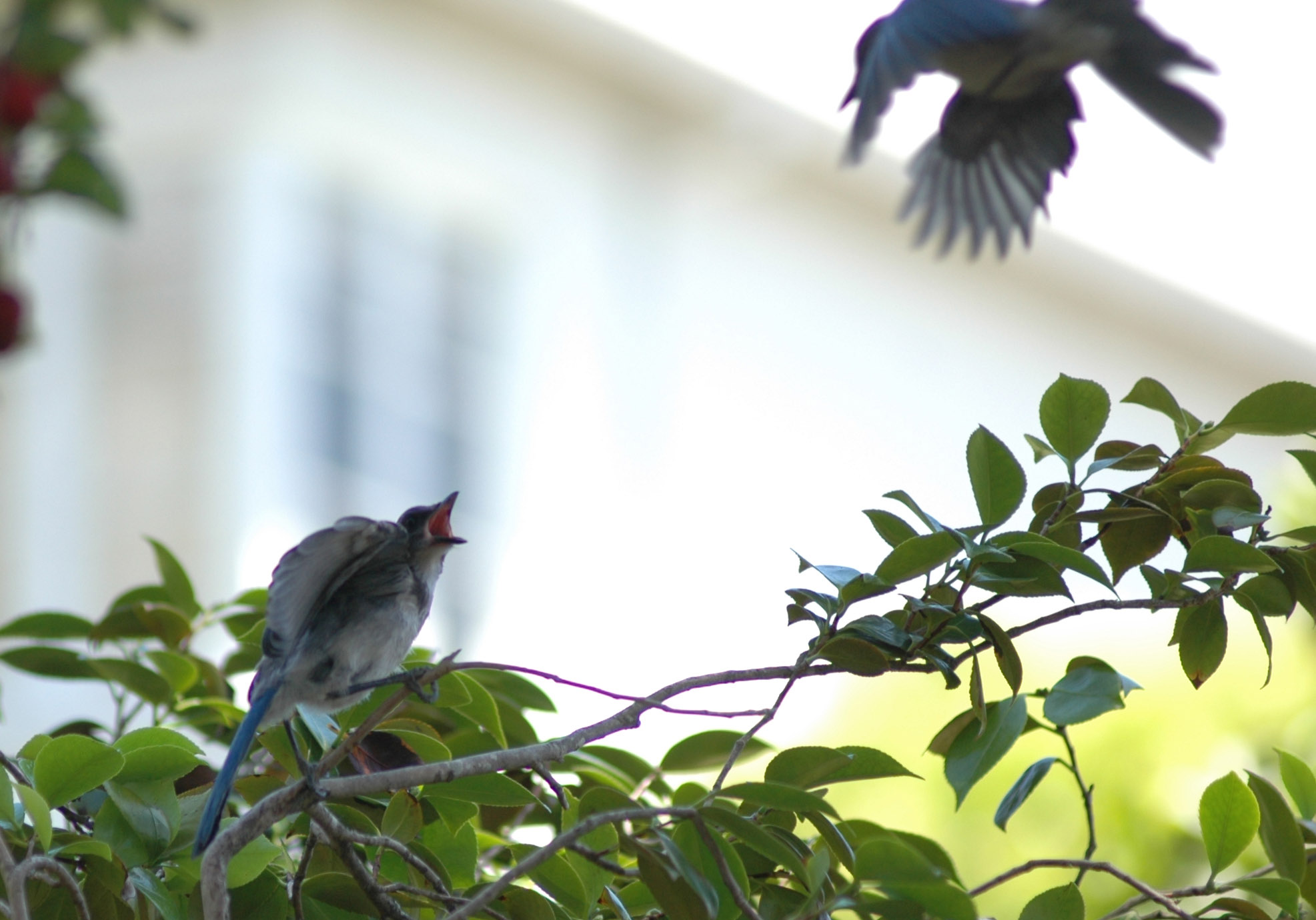 Western Scrub Jay fledgling being fed by a relative, Alameda County, California.